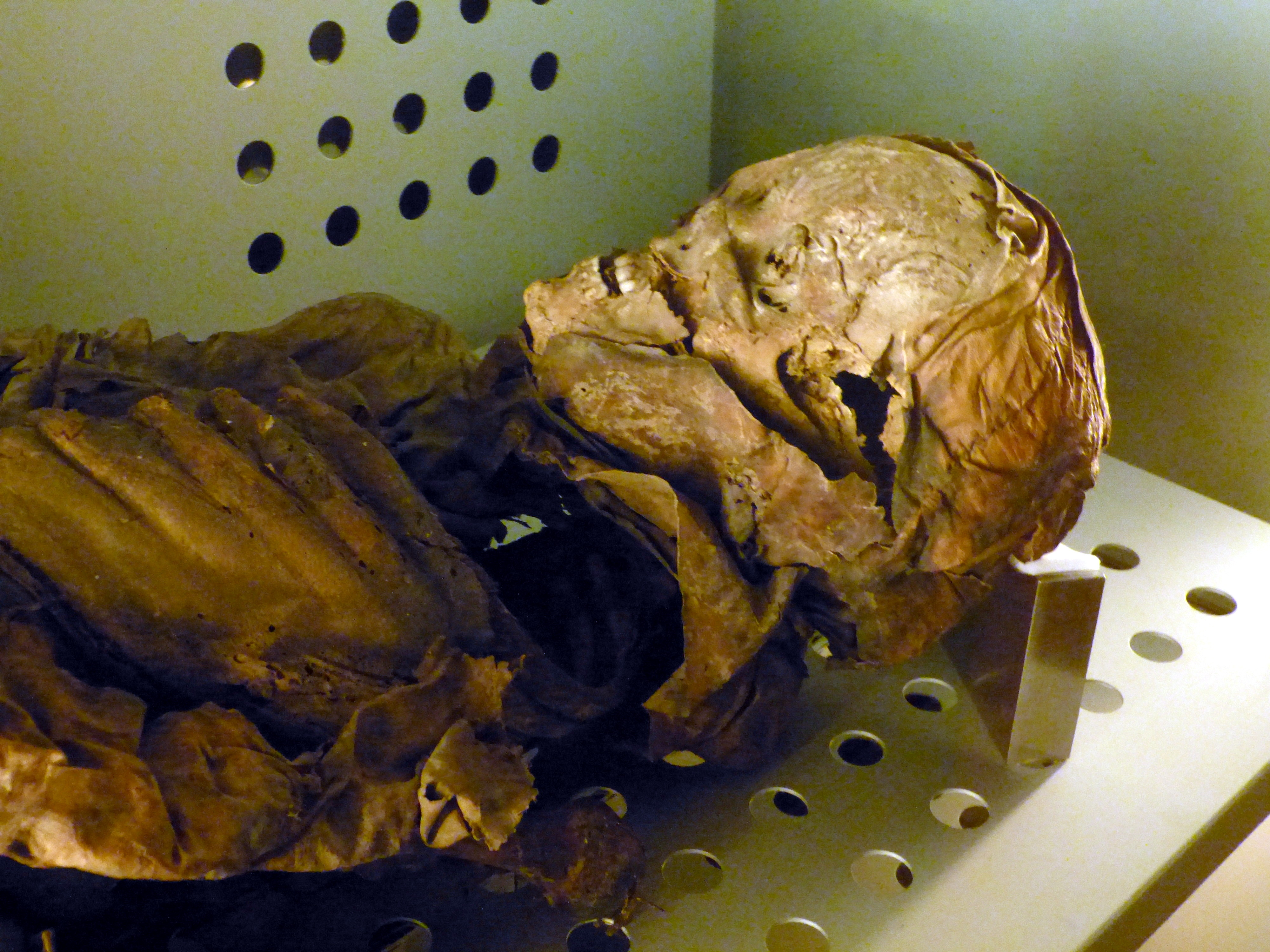 Santa Cruz de Tenerife ( Spain ). Museo de la Naturaleza y el Hombre - Guanche collections: Mummy of a woman, 27-32 years old, 1,59m tall, covered with goat skin, from Guía de Isora ( Tenerife )